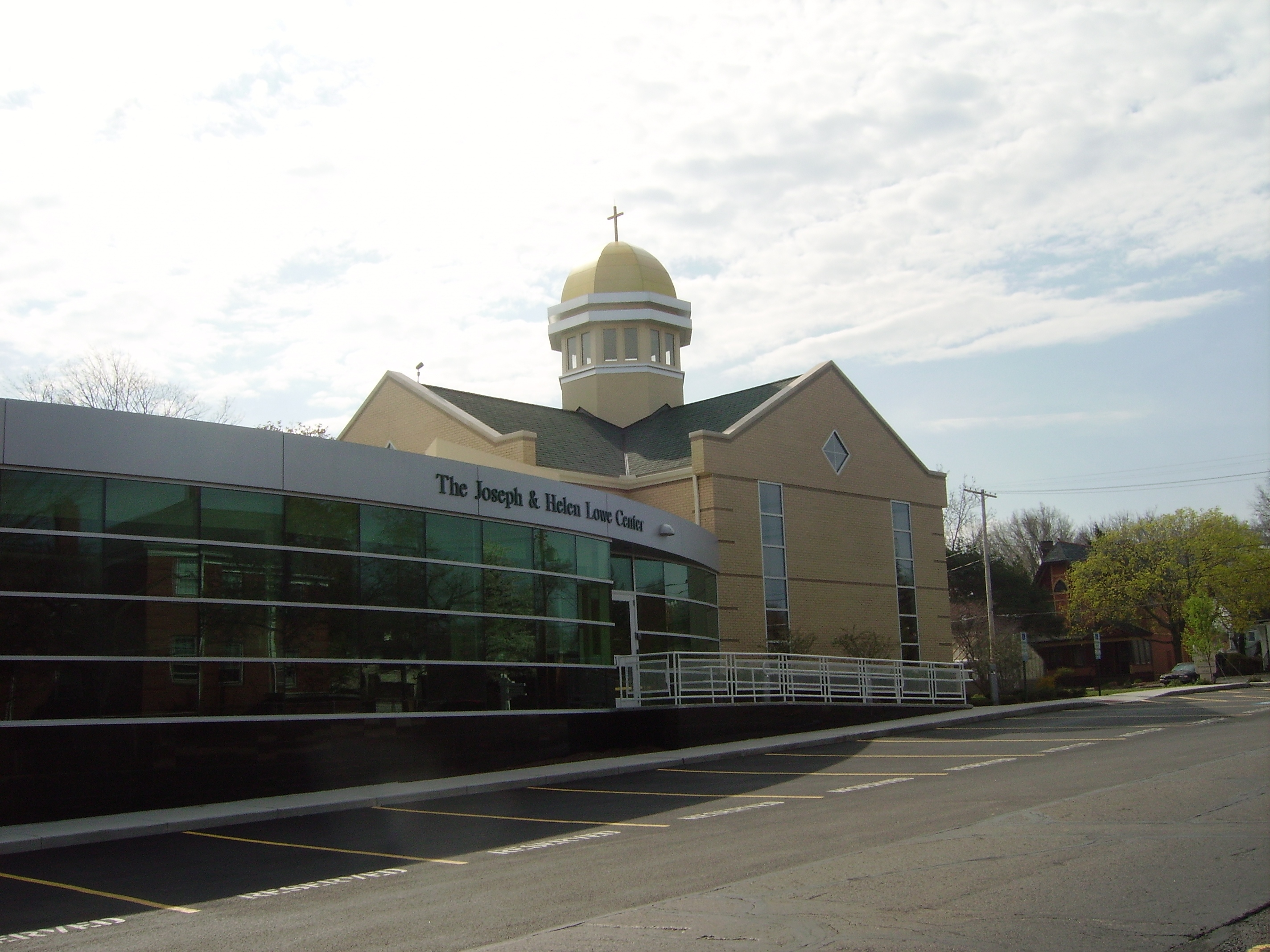 The Joseph and Helen Lowe Center and the Chapel at St. Edward High School, Lakewood, Ohio.